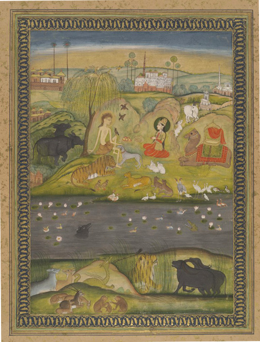 Layla visits Majnun in the wilderness. Watercolour from an album of Indian pictures. Shelfmark: MS. Ouseley Add. 166